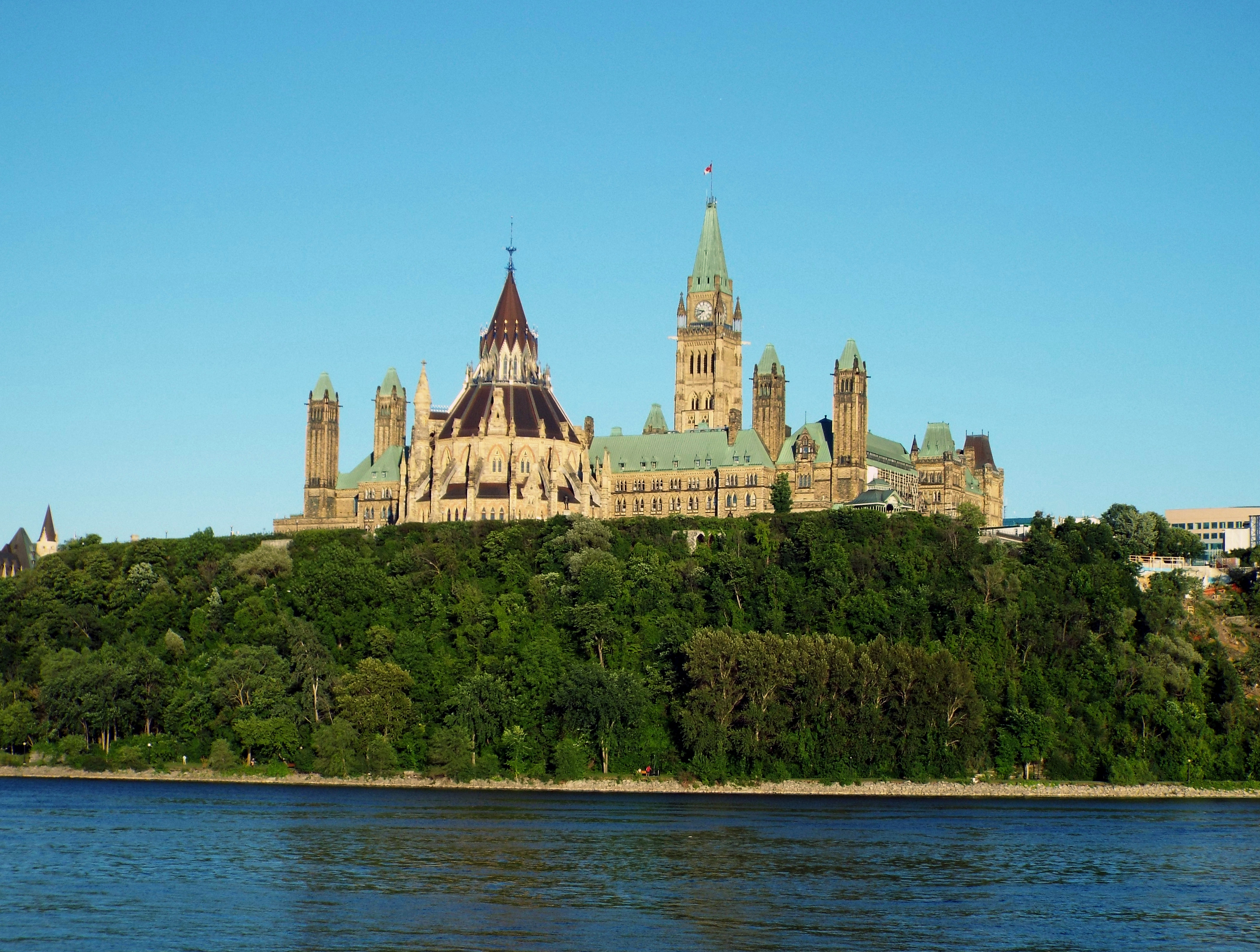 Parliament Hill in Ottawa, Ontario. Photographed by user Coolcaesar on July 4, 2014 from Gatineau, Quebec.